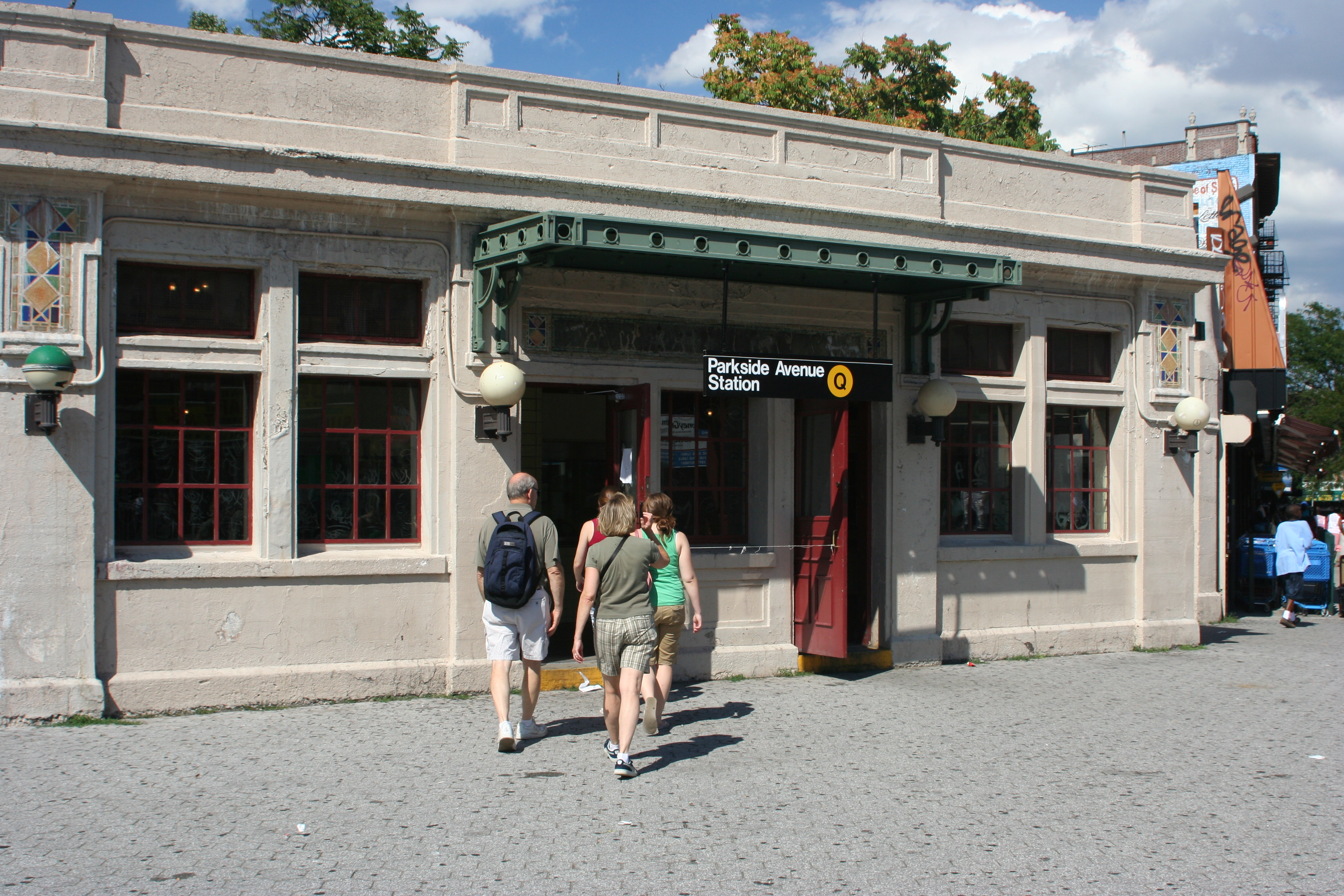 New York City Subway Parkside Avenue Station Entrance